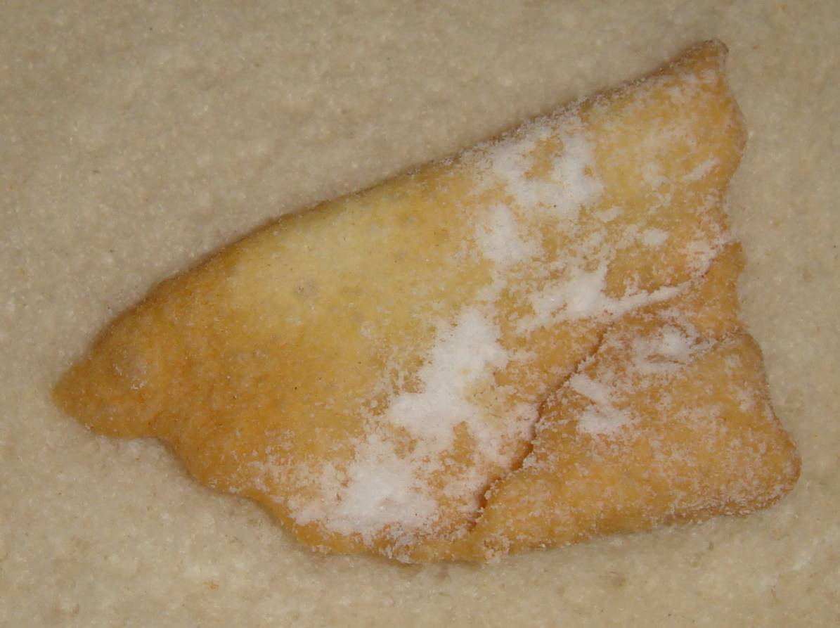 A Muze, sweet cake from the Rhineland.